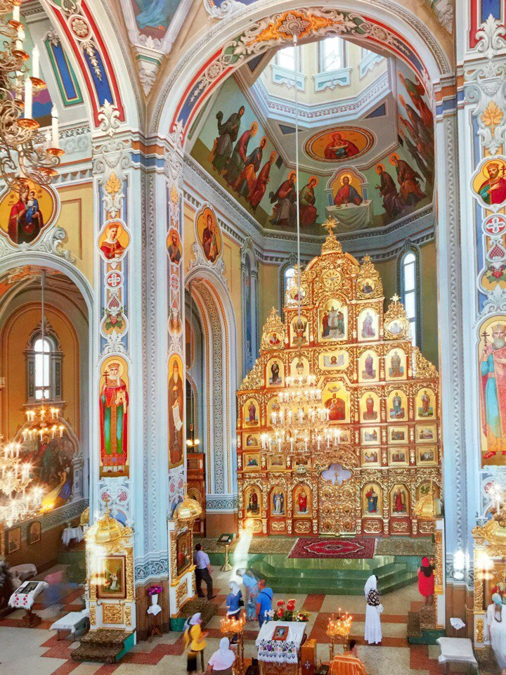 Holy Trinity Church